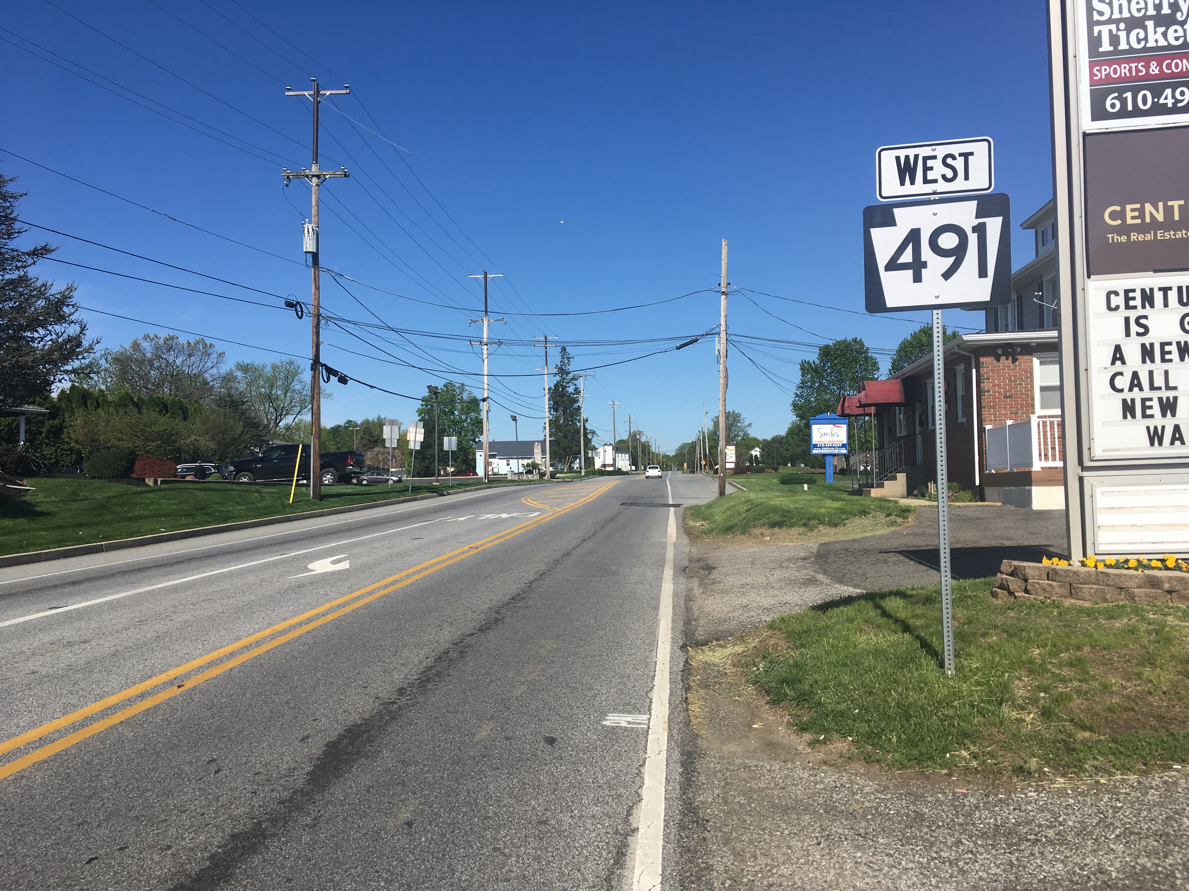 Westbound Pennsylvania Route 491 (Naamans Creek Road) past the intersection with Pennsylvania Route 261 (Foulk Road) in Booths Corner, Pennsylvania